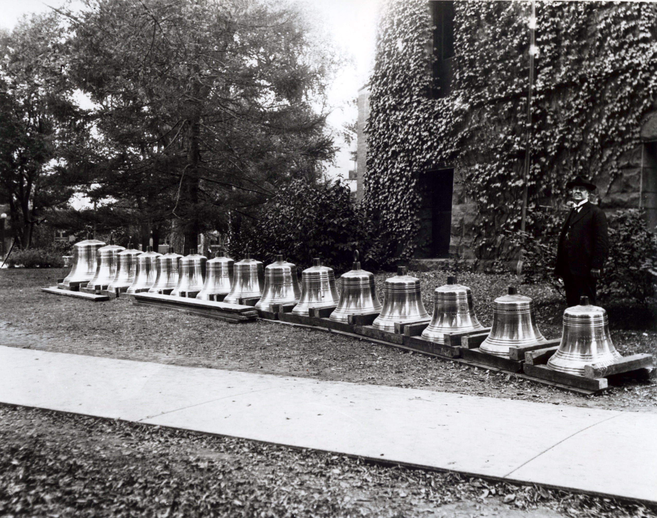 University of Illinois President Edmund J. James stands next to the chimes outside of the Library (later Altgeld Hall), prior to the time the chimes were to be dedicated, on homecoming weekend of 1920, Oct. 30.